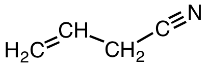 allyl cyanide explicitly shown